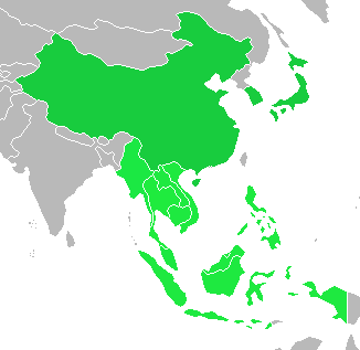 world map, ASEAN Plus Three states marked green; regular ASEAN states light green